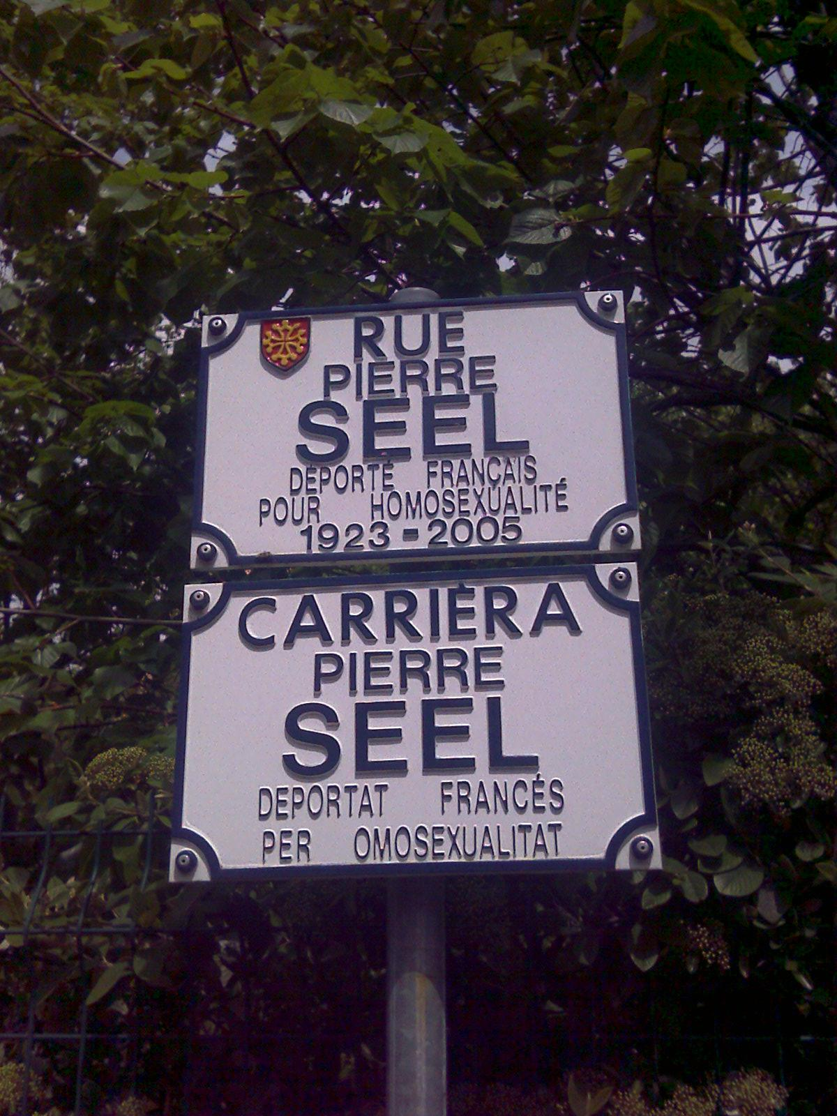 Street plate in Toulouse, France, in honor of Pierre Seel, who lived in this city after his ordeal in the hands of the Nazis for being a homosexual.